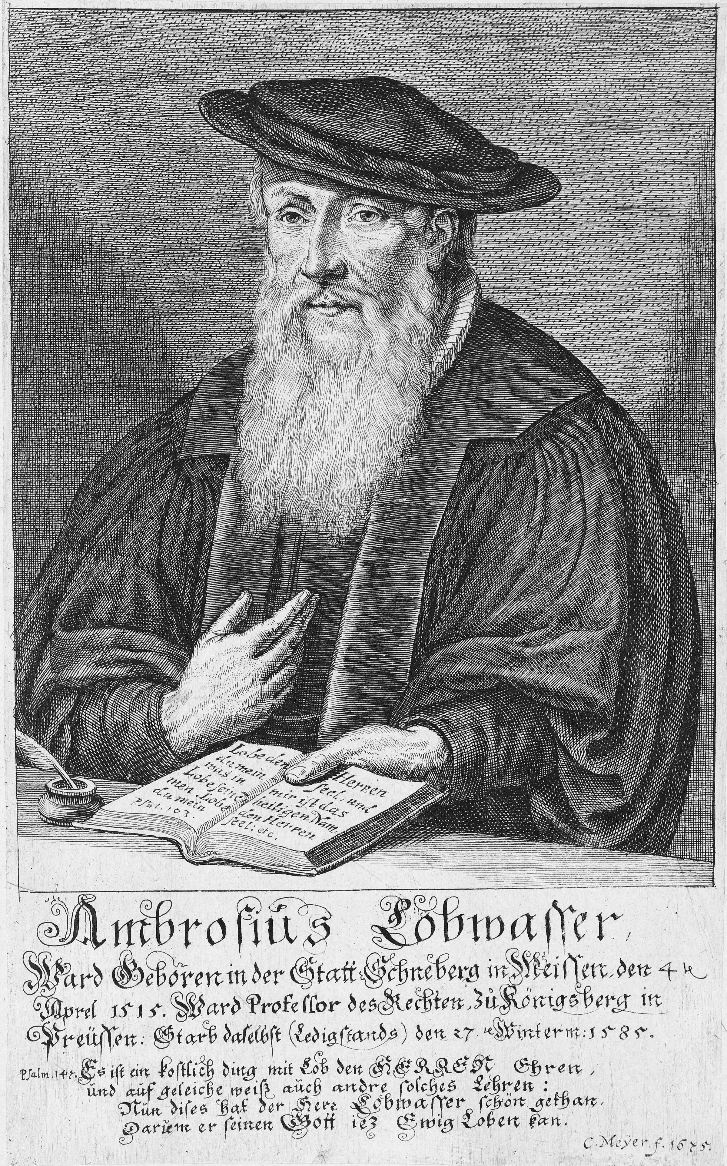 Portrait of Ambrosius Lobwasser (1515-1585), German humanist